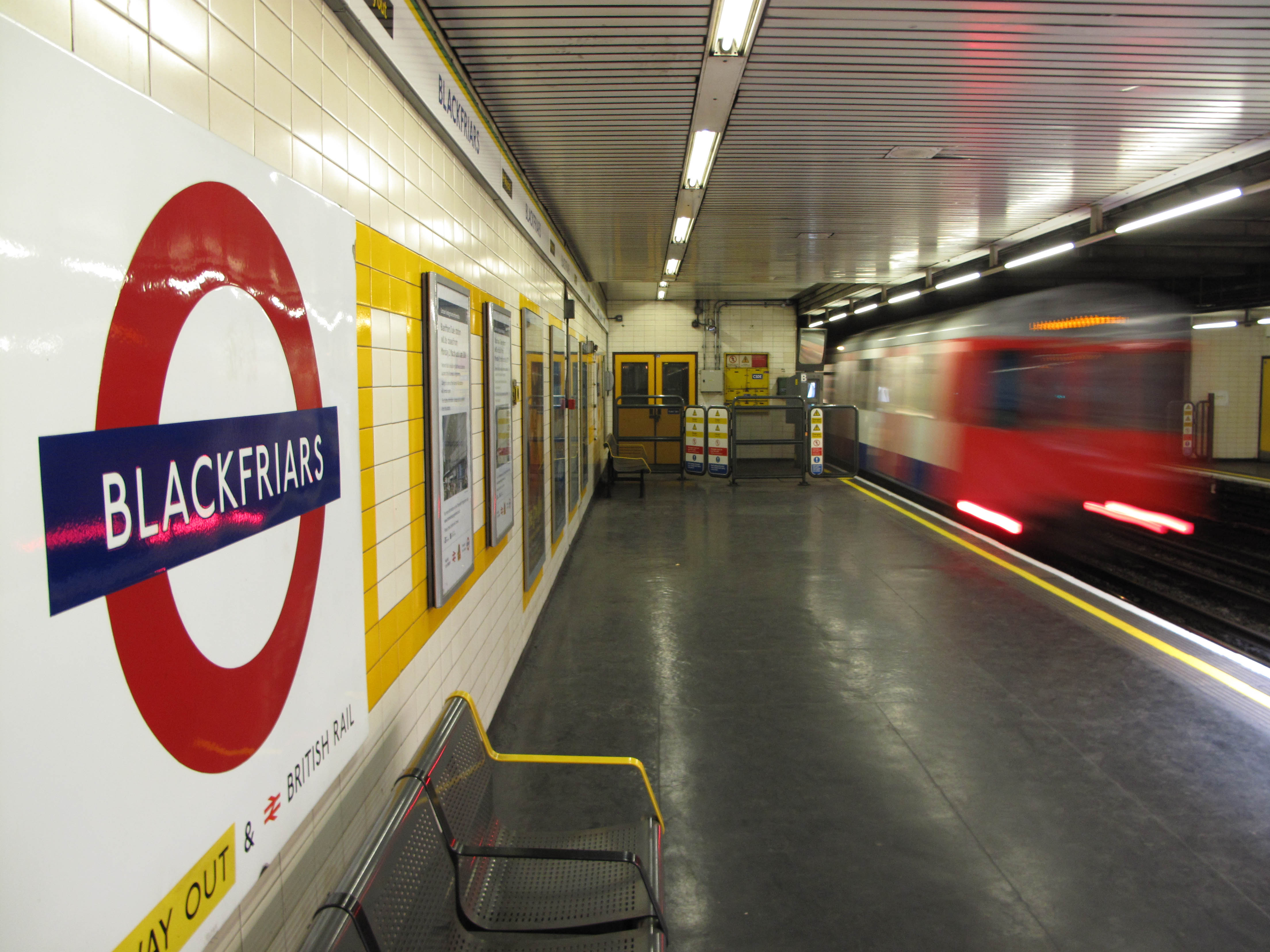 Shortly before it closed in 2009 for a major refurbishment.